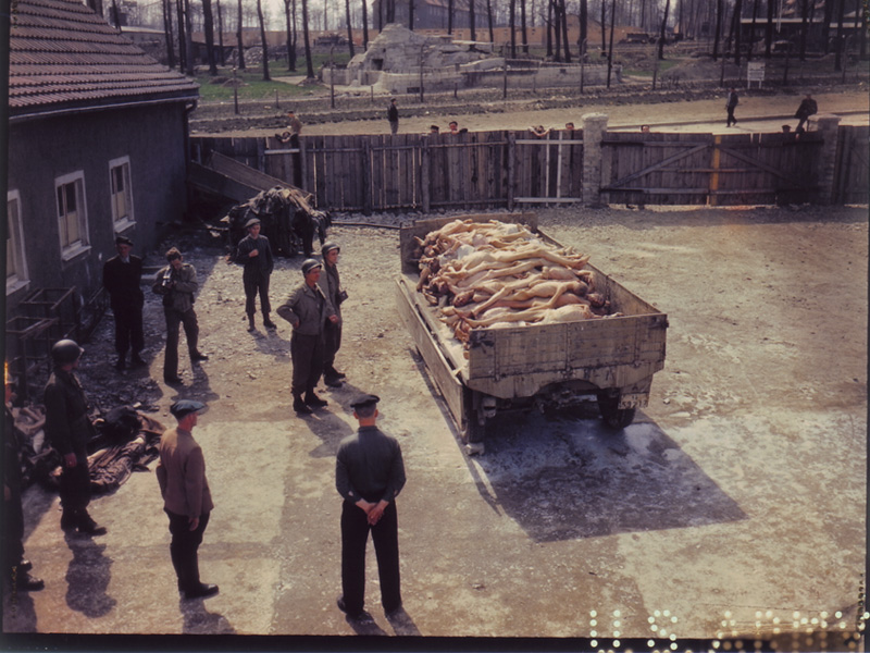 Ardean R. Miller, U.S. Signal Corps, April 18, 1945